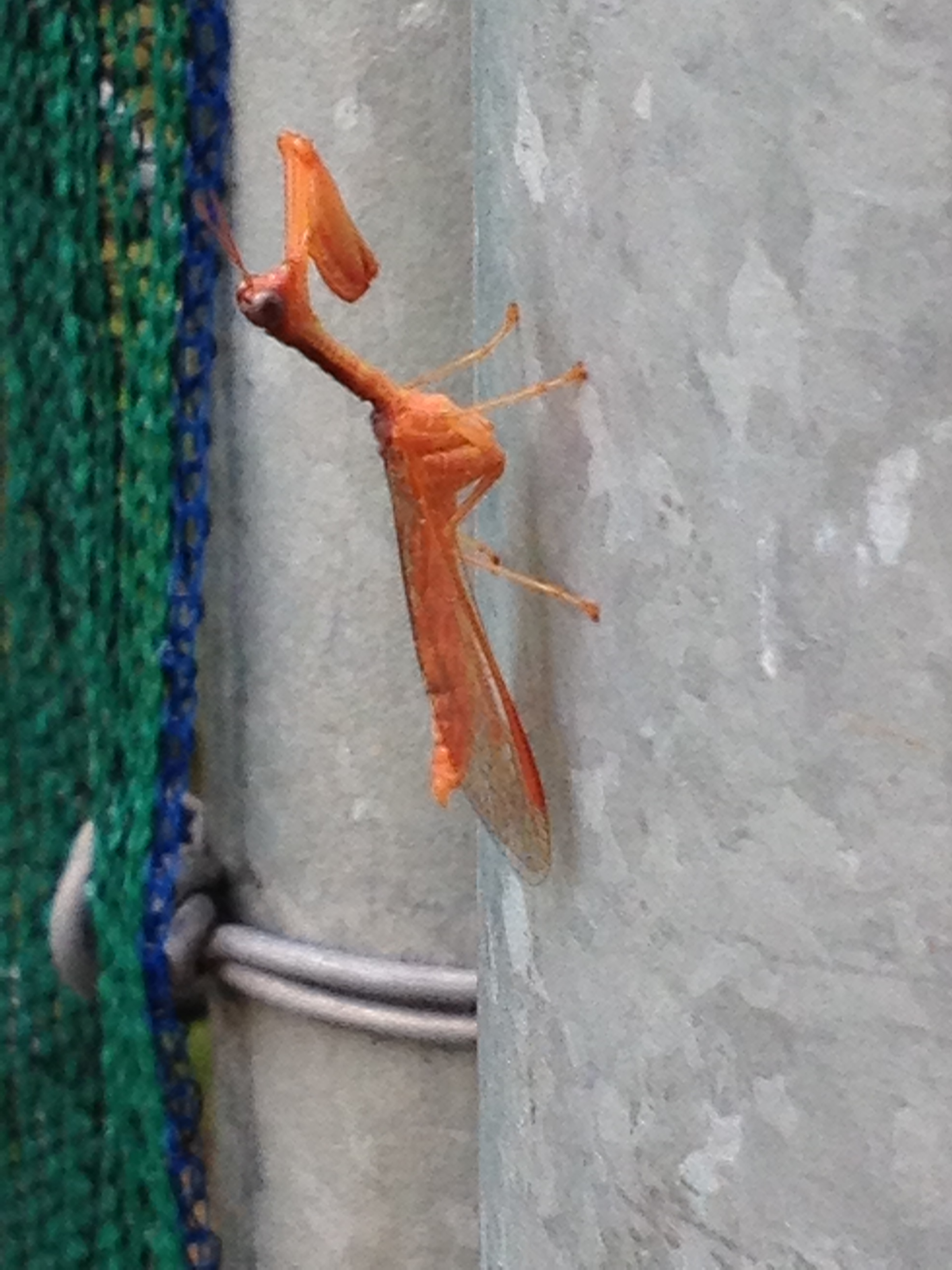 Species unknown, Sydney Australia